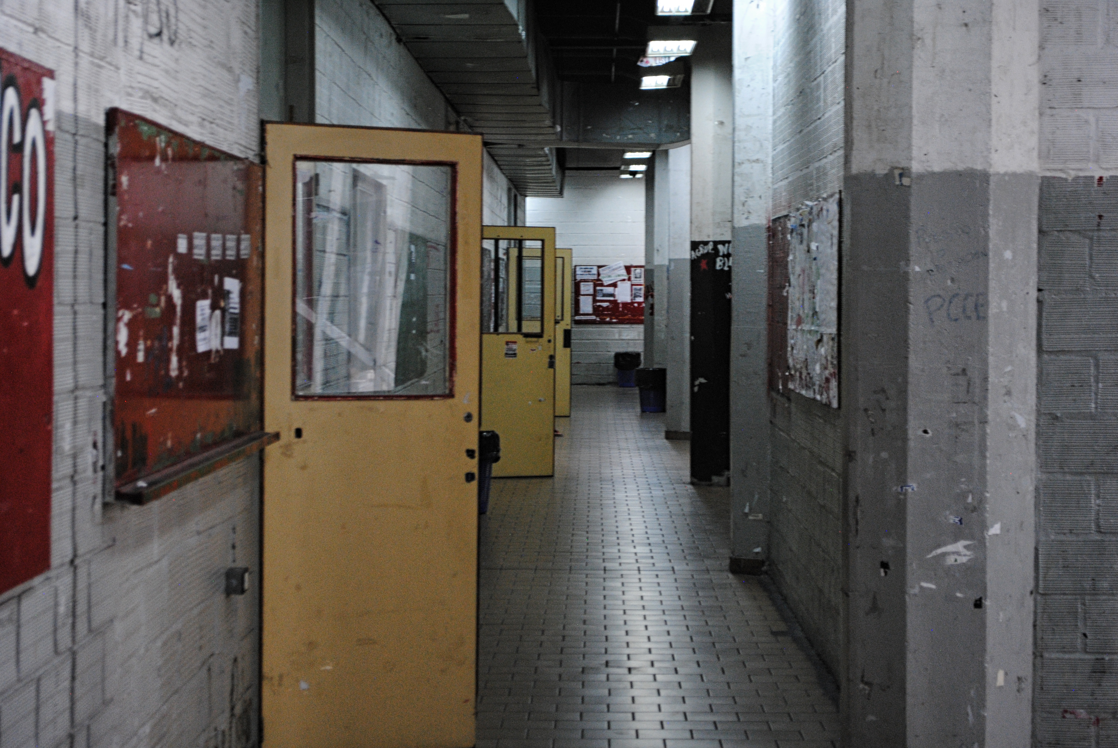 Buenos Aires, Argentina